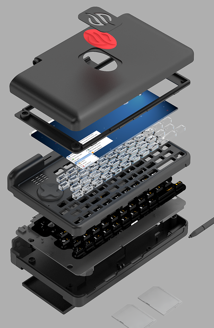 Pya-Render-Explosion small